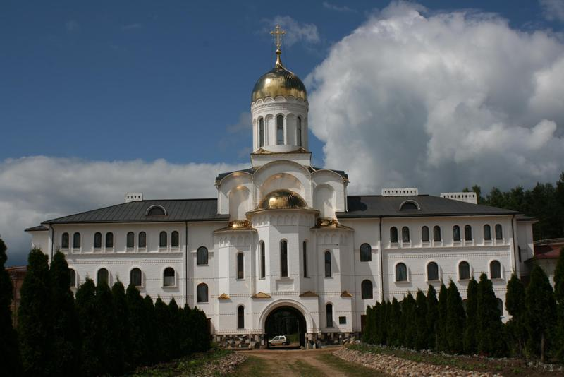 Yaroslavl Oblast. Nikolo-Solbinsky Monastery